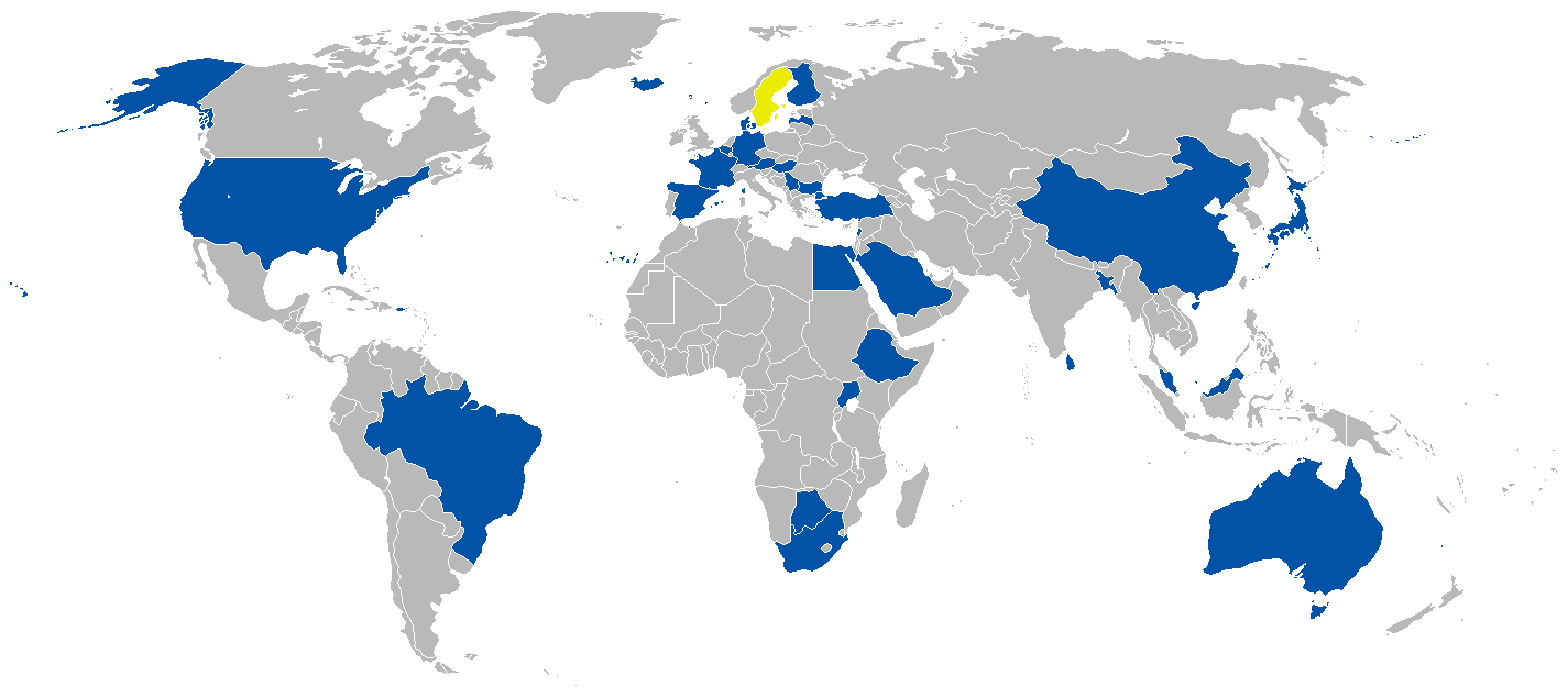 Royal trips of Crown Princess Victoria of Sweden.